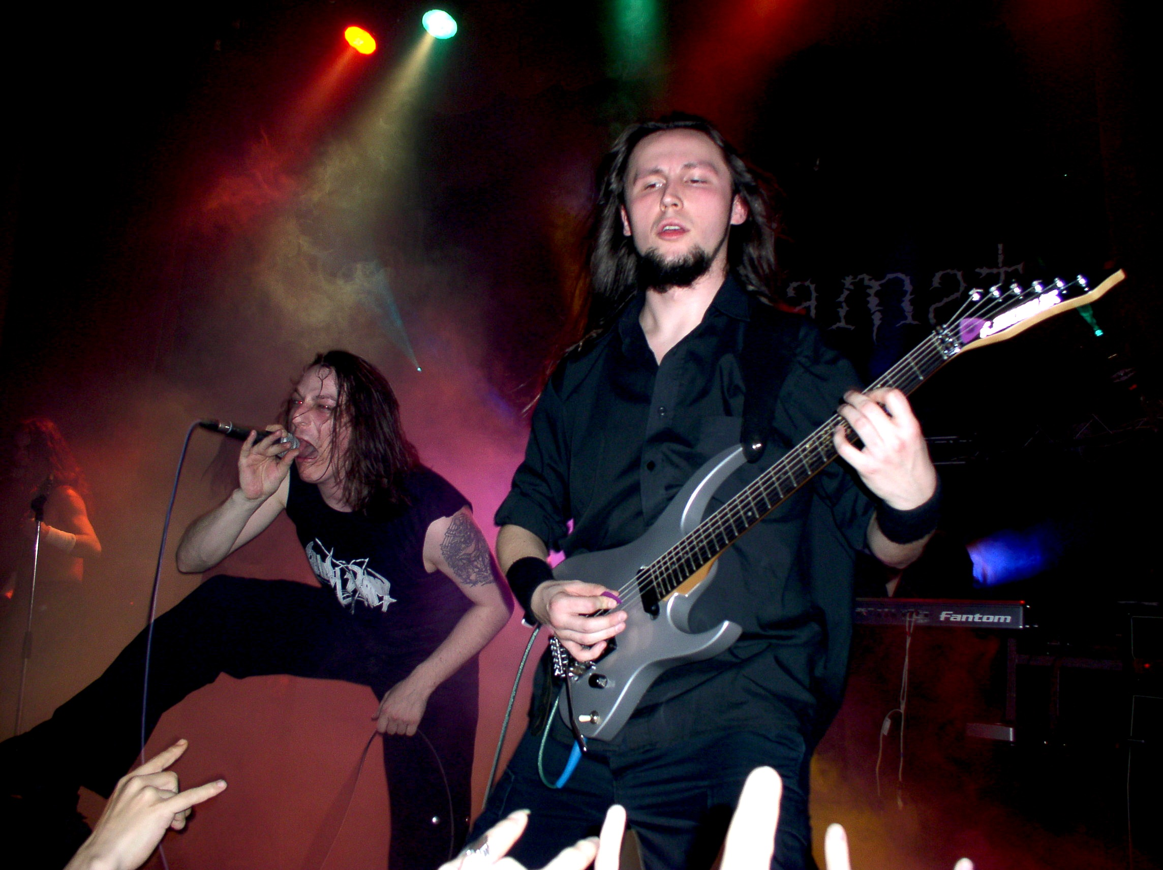 Flauros and Chris from Darzamat on Moscow After Midnight in 2004.